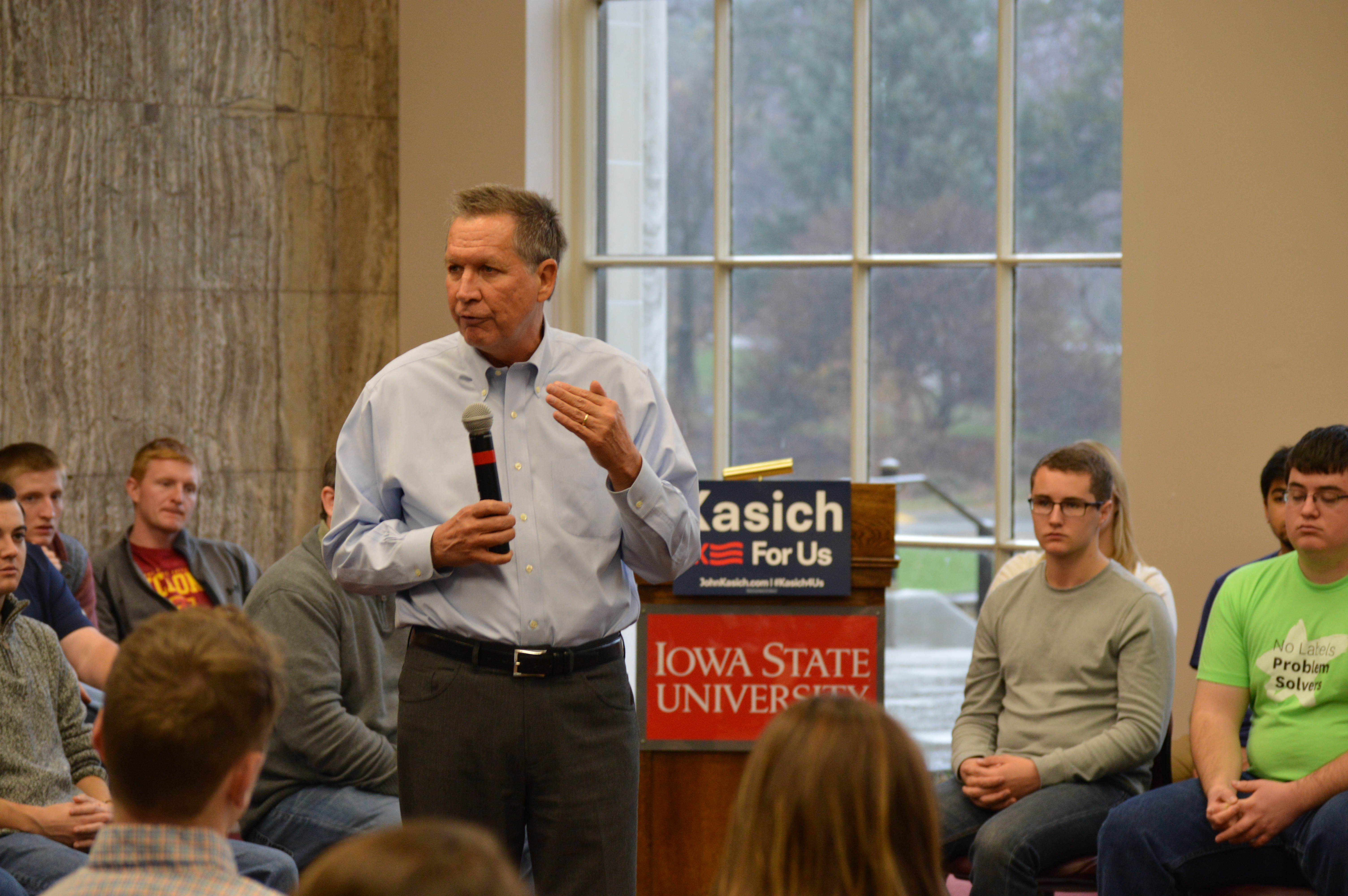 Ohio Gov. John Kasich, 2016 Republican presidential candidate, at a town hall meeting at Iowa State University in Ames, Iowa on Monday, Nov. 30, 2015. Mandatory credit to Alex Hanson if used elsewhere.